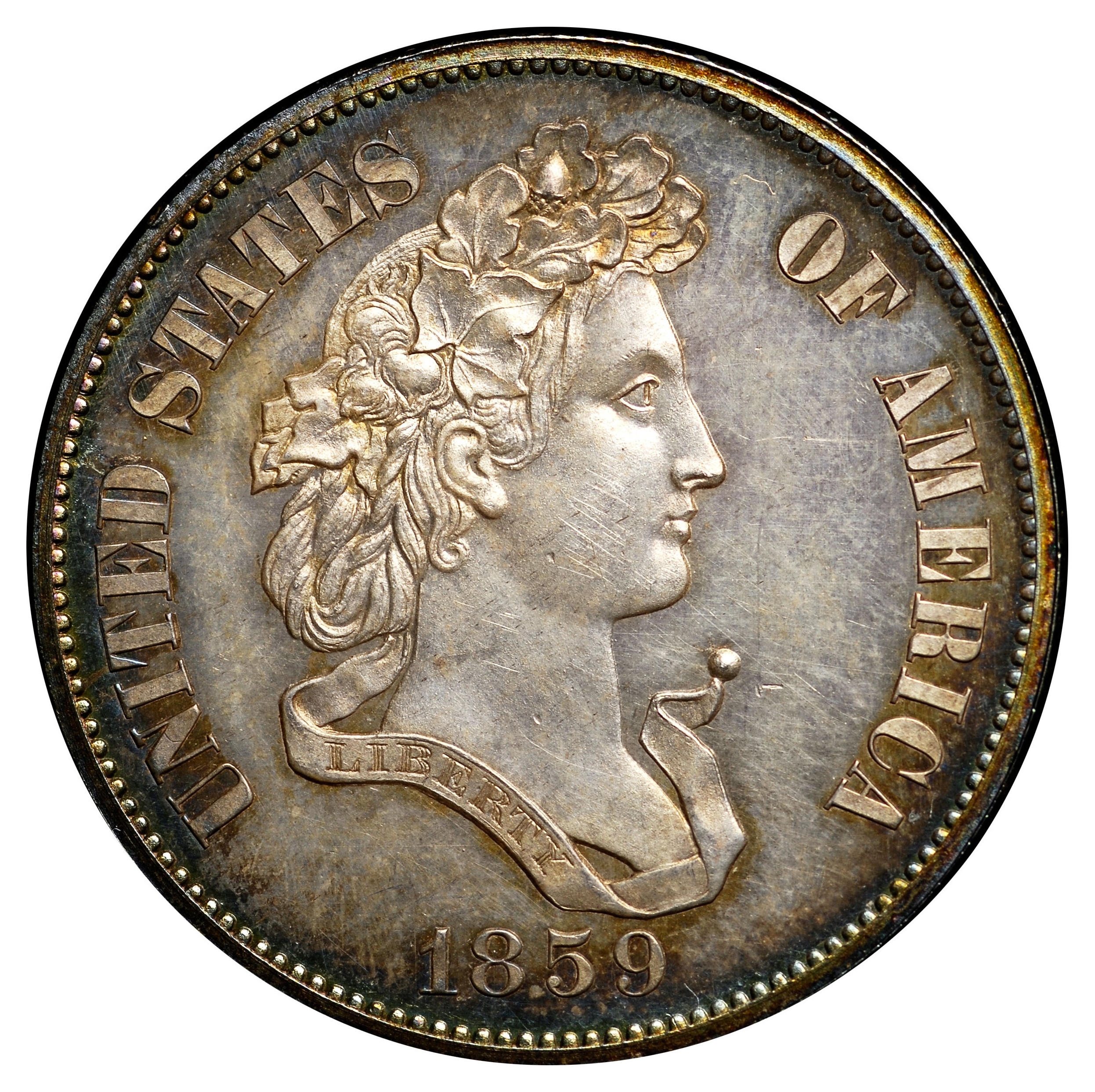 1859 P50C Half Dollar (Judd-241) (obv)(1184-3928)